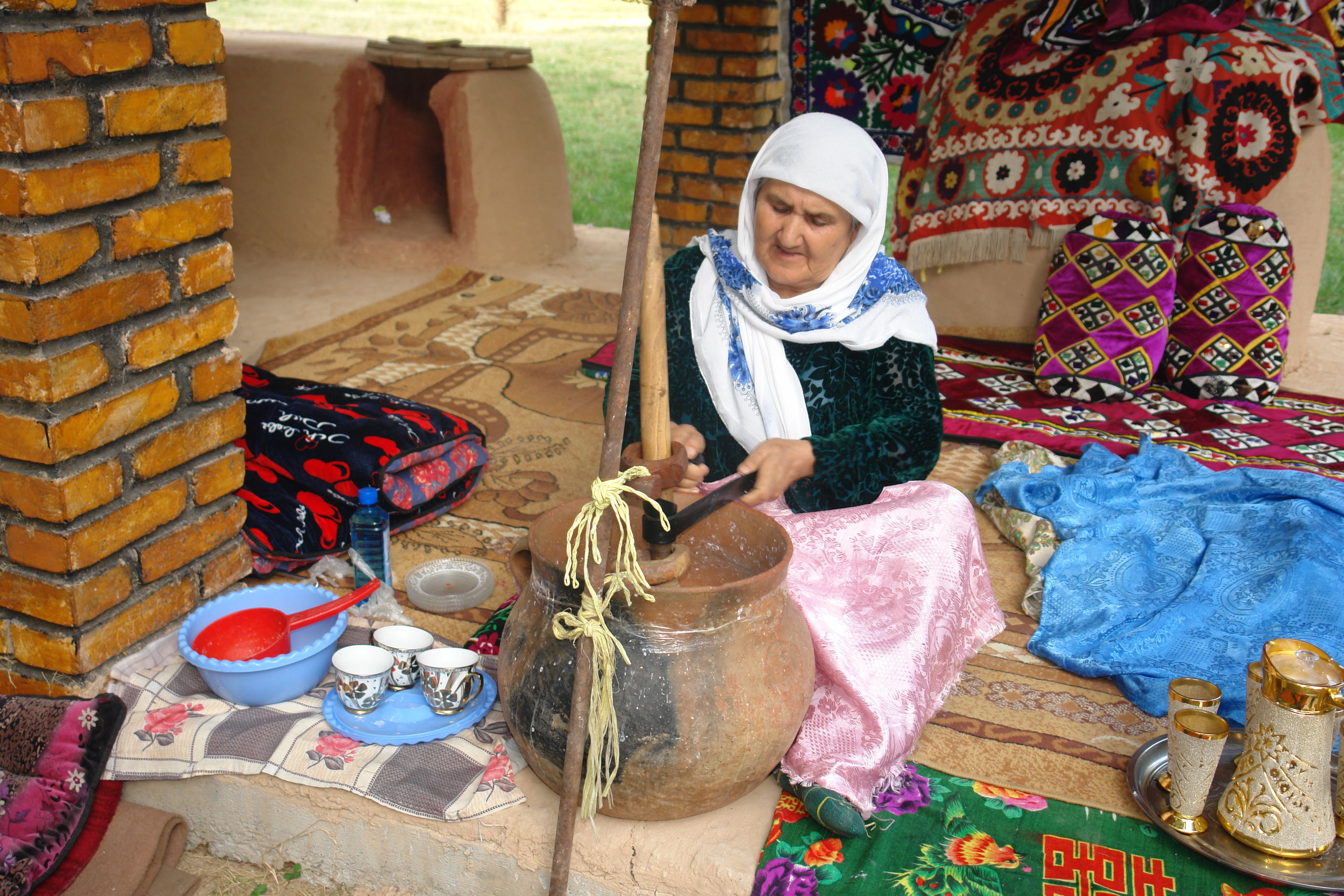 Seamstresses folk ornaments. Tajikistan